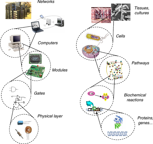 Understand the cell as a eletronic circuit.